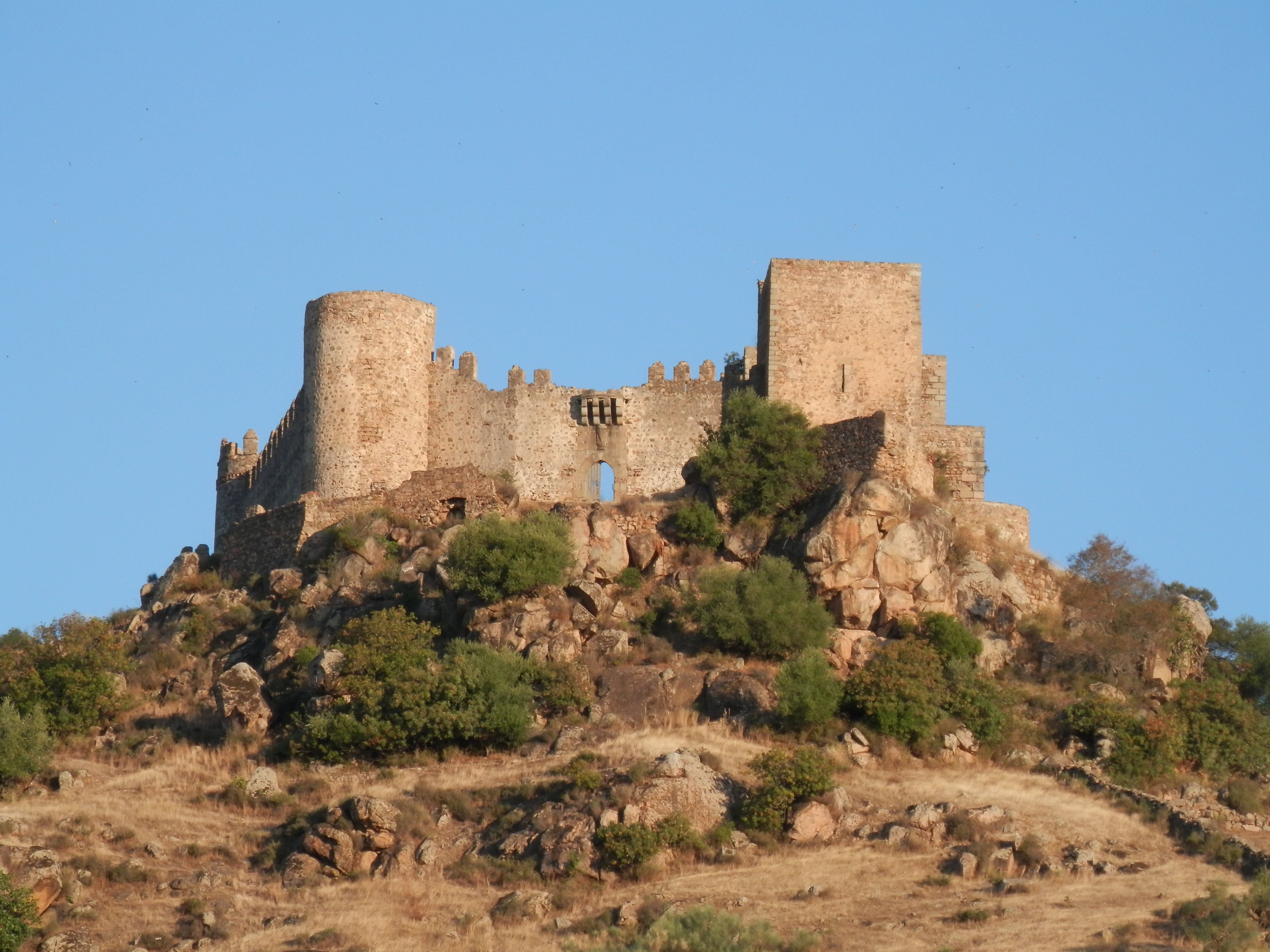 Burguillos del Cerro Castle